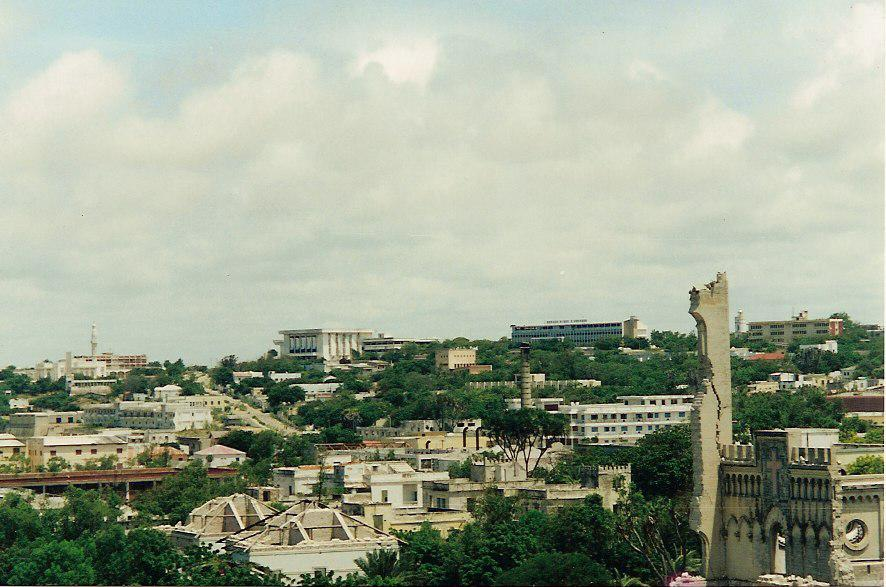 Mogadishu skyline at the time of UNOSOM (according to uploader on flickr, All of my pictures in Somalia were taken between when I arrived in 1993 and when left at the close of the UNOSOM mission in 1995.)pictures from an armed convoy trip in Mogadishu